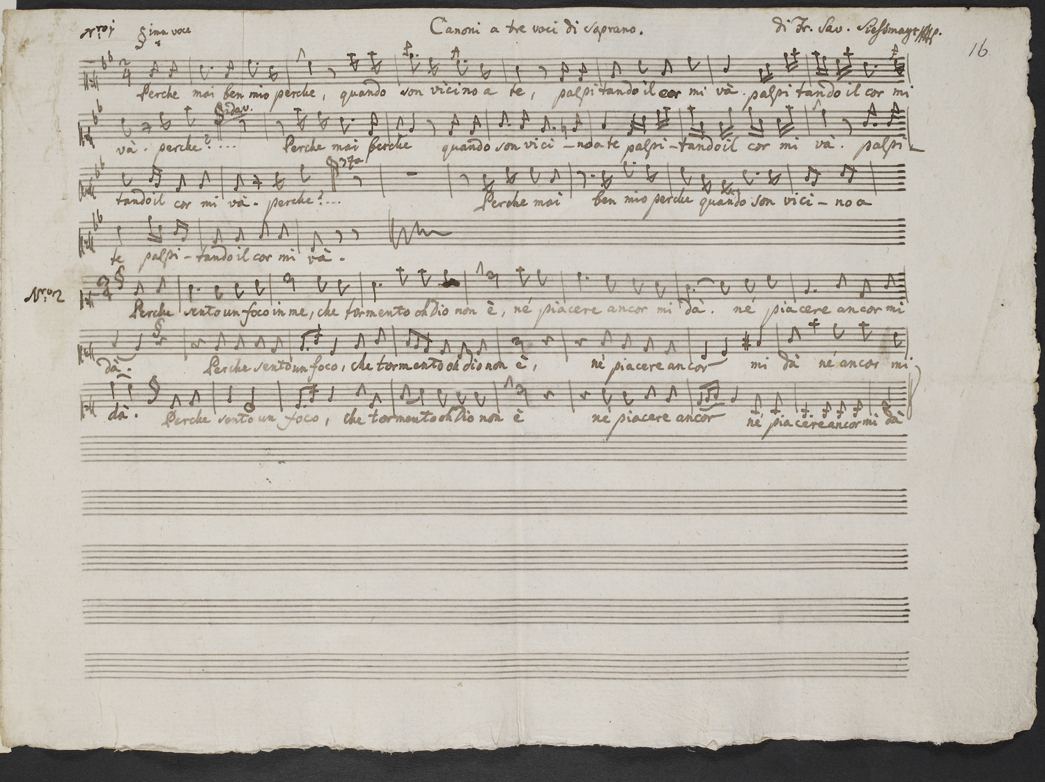 Perché mai ben mio. In the composer's hand.